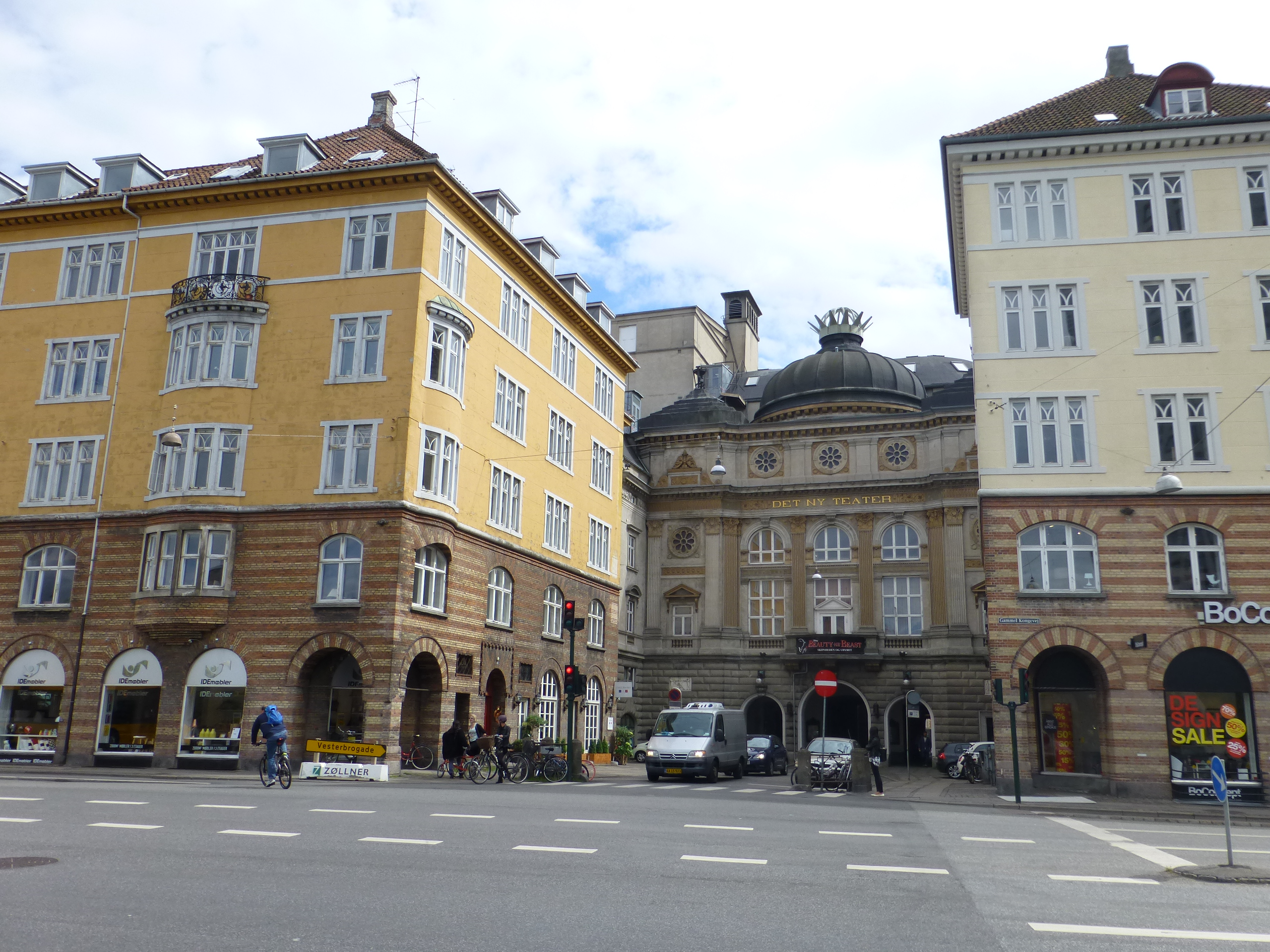 The theater Det Ny Teater in Vesterbro in Copenhagen. The theater is build over a street. The part of the street in front of the theater seen here is officially a part of Gammel Kongevej, while it on the other side is a part of Vesterbrogade.